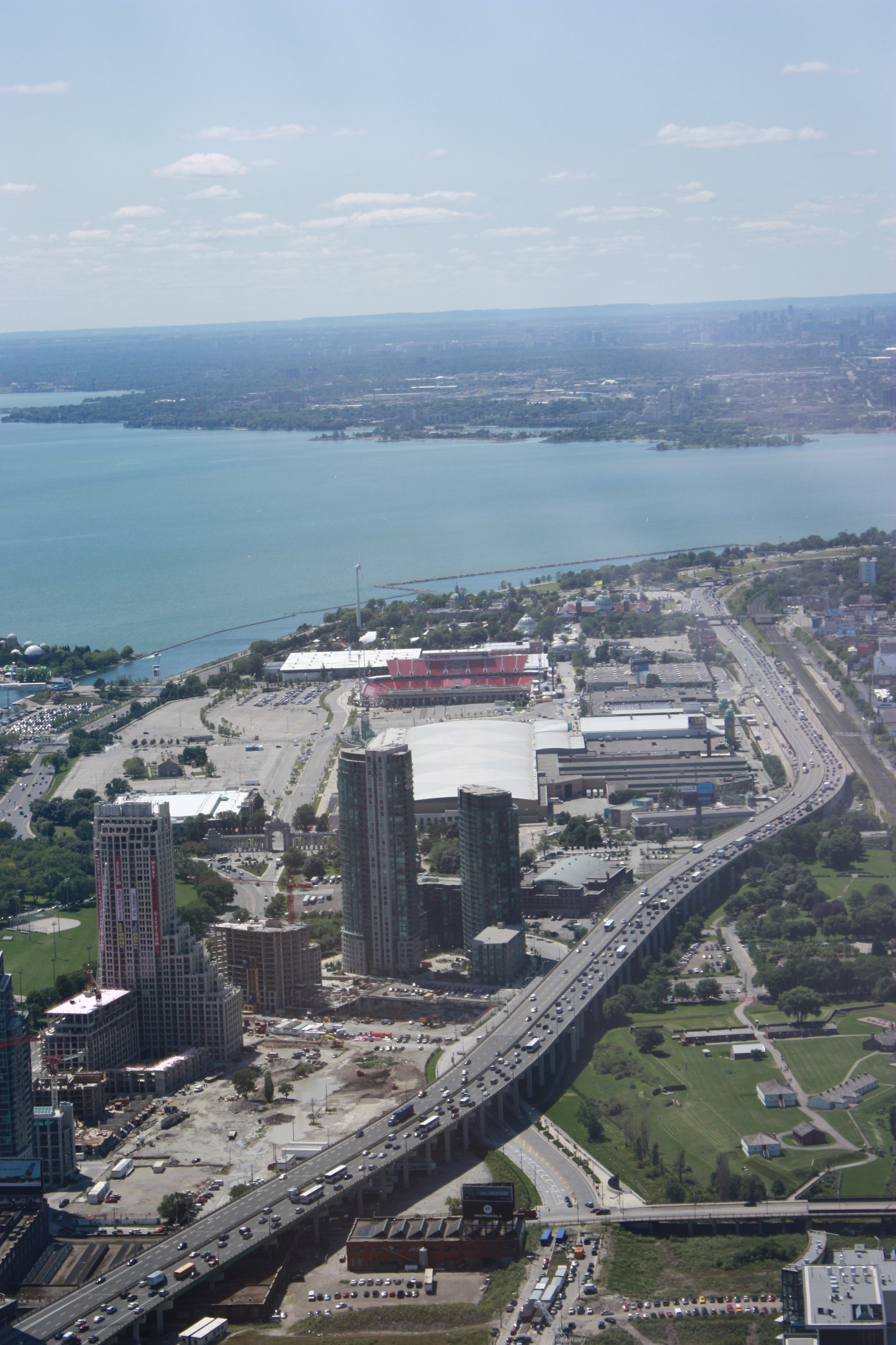 The Gardiner Expressway, looking west from the CN Tower, with Fort York in the right foreground and the CNE and BMO Field toward the upper left and Ontario Place to the extreme left.